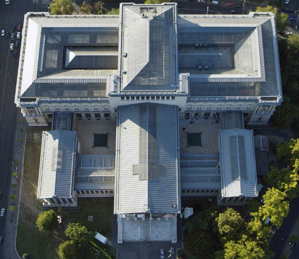 Museum of fine arts Budapest, Hungary, aerial photography